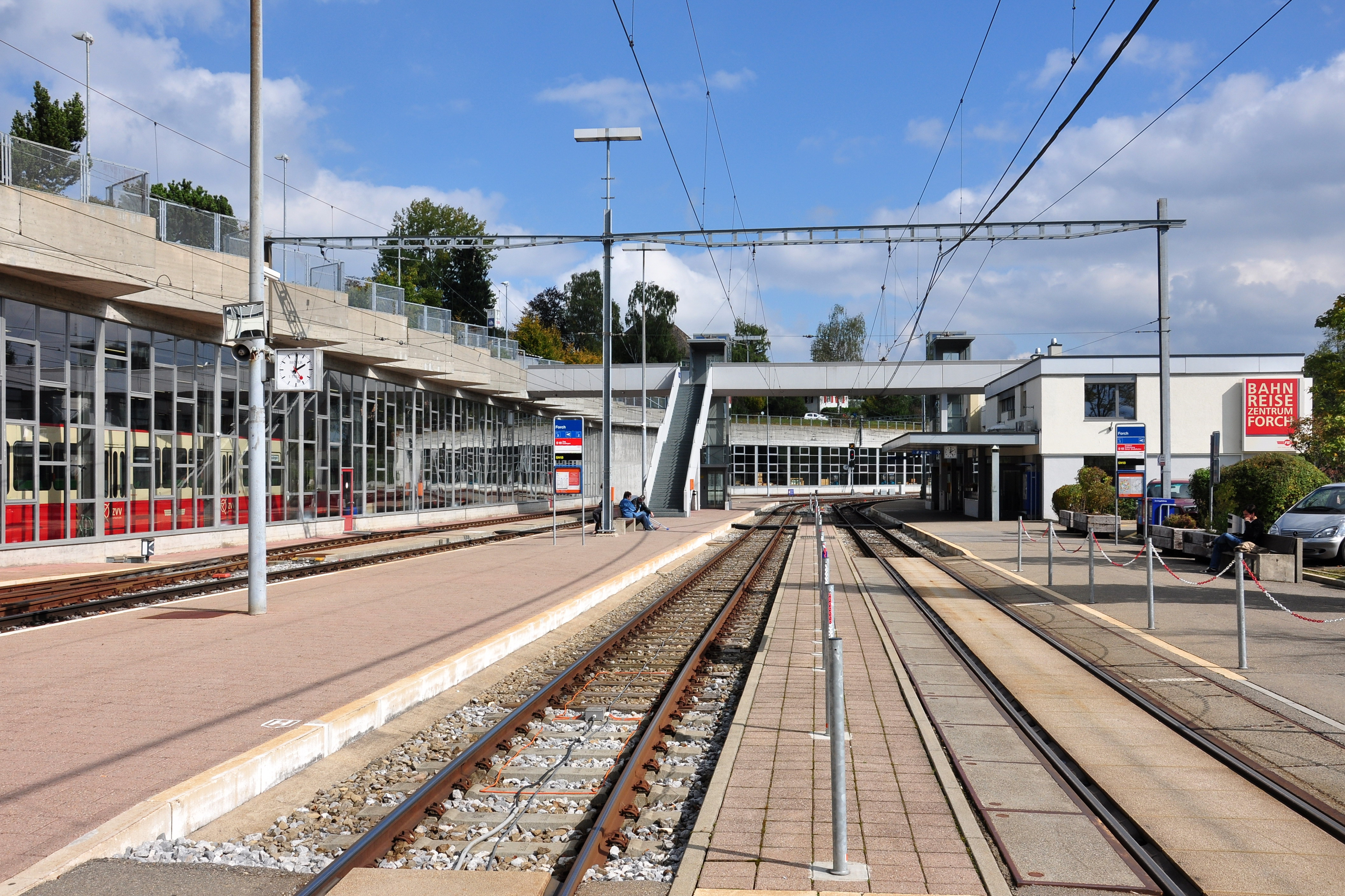 Forch train station and depot of the Forchbahn (Switzerland)